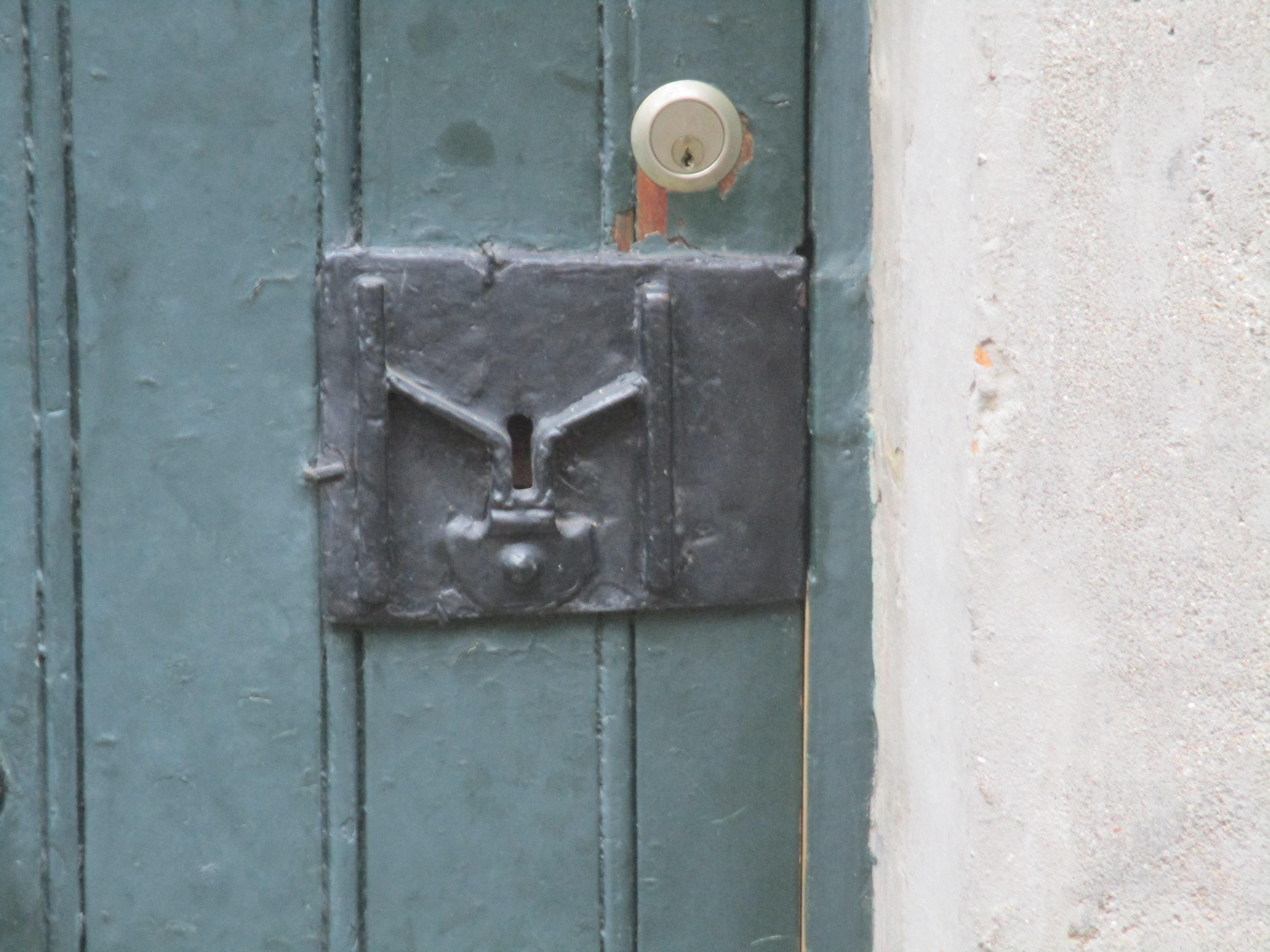 Special type of lock to use in the dark. The keyhole can be located easier with this type of lock. It can be found in the Beguinage of the Belgian city Lier.